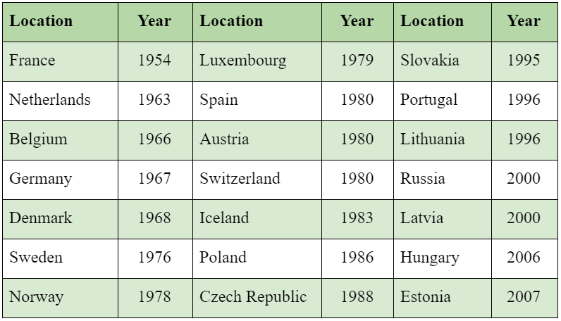 Spread of Campylopus introflexus in Europe since 1954. Sources: Størmer 1958, Barkman & Mabelis 1968, Jacques & Lambinon 1968, Neu 1968, Frahm 1971, Boesen et al. 1975, Johansson 1977, Øvstedal 1978, Werner 1979, Casas et al. 1988, Grims 1980, Urmi et al. 2007, Magnússon 2009, Lisowski & Urbañski 1989, Novotný 1990, Holotova & Soltes 1997, Sérgio 1997, Jukoniené 2003, Razgulyaeva et al. 2001, Abolina & Reriha 2004, Szücs & Erzberger 2007, Vellak et al. Submitted 2009. Taken from “The alien invasive moss Campylopus introflexus in the Danish coastal dune system” (Klinck 2009).